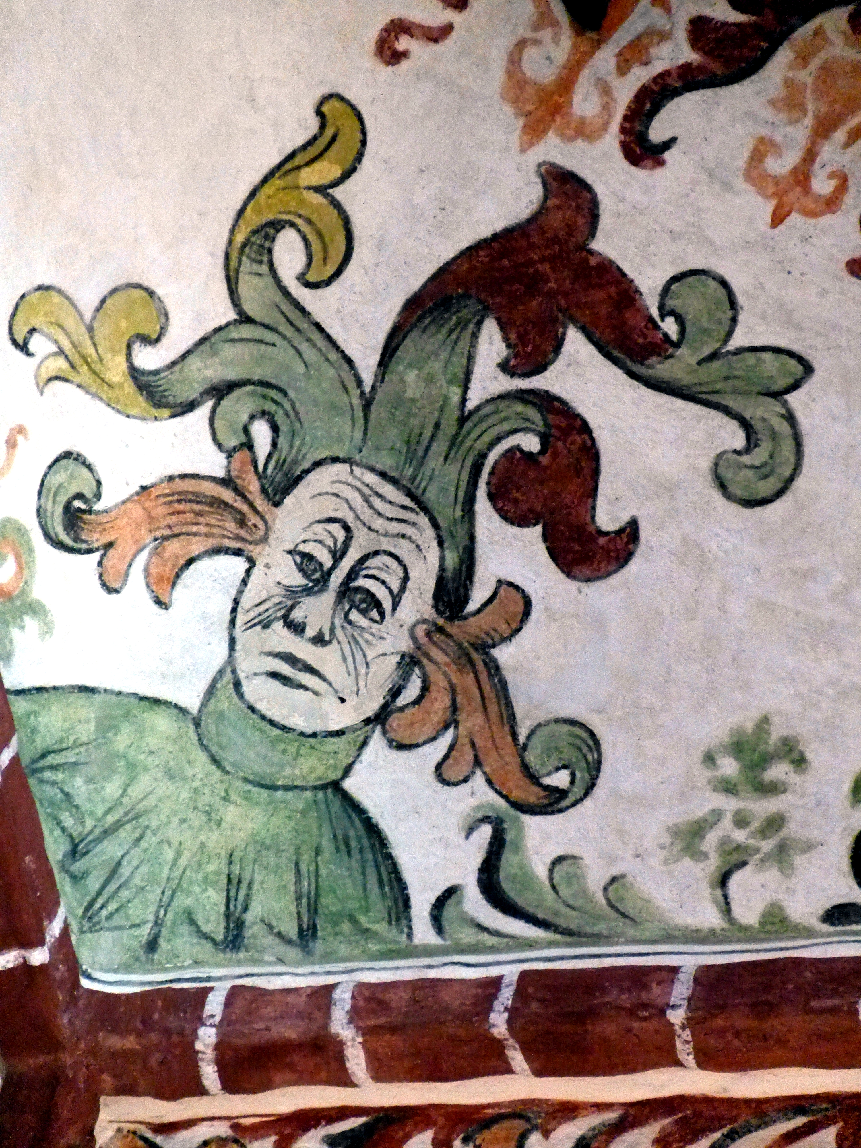 Brandenburg an der Havel ( Germany ) . Saint Catherine's church: Fresco ( 15th century ) of a jester at the vaults.